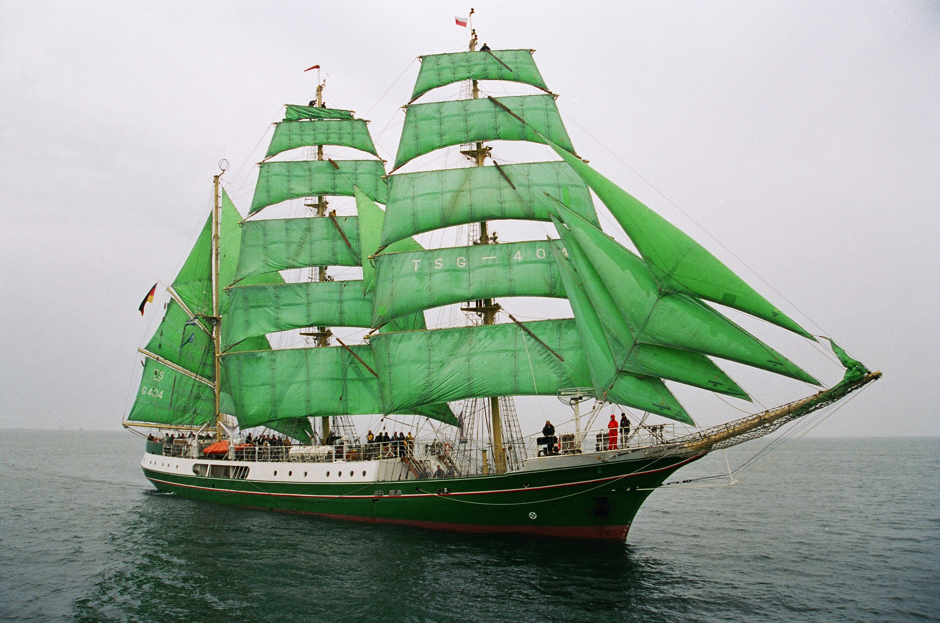 The barque Alexander von Humboldt, with four jibs set and a fifth furled on the bowsprit.